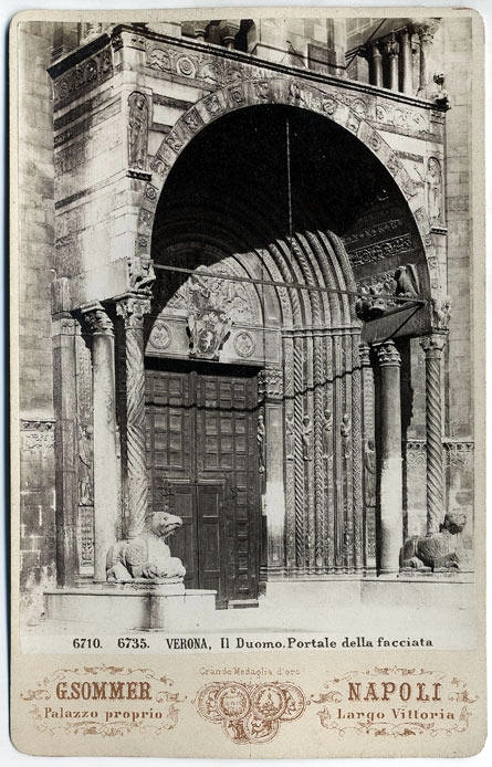 Giorgio Sommer (1834-1914) - "Verona. The cathedral. Portal of the facade.". Catalogue # 6710.